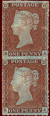 Source: The file from this web page